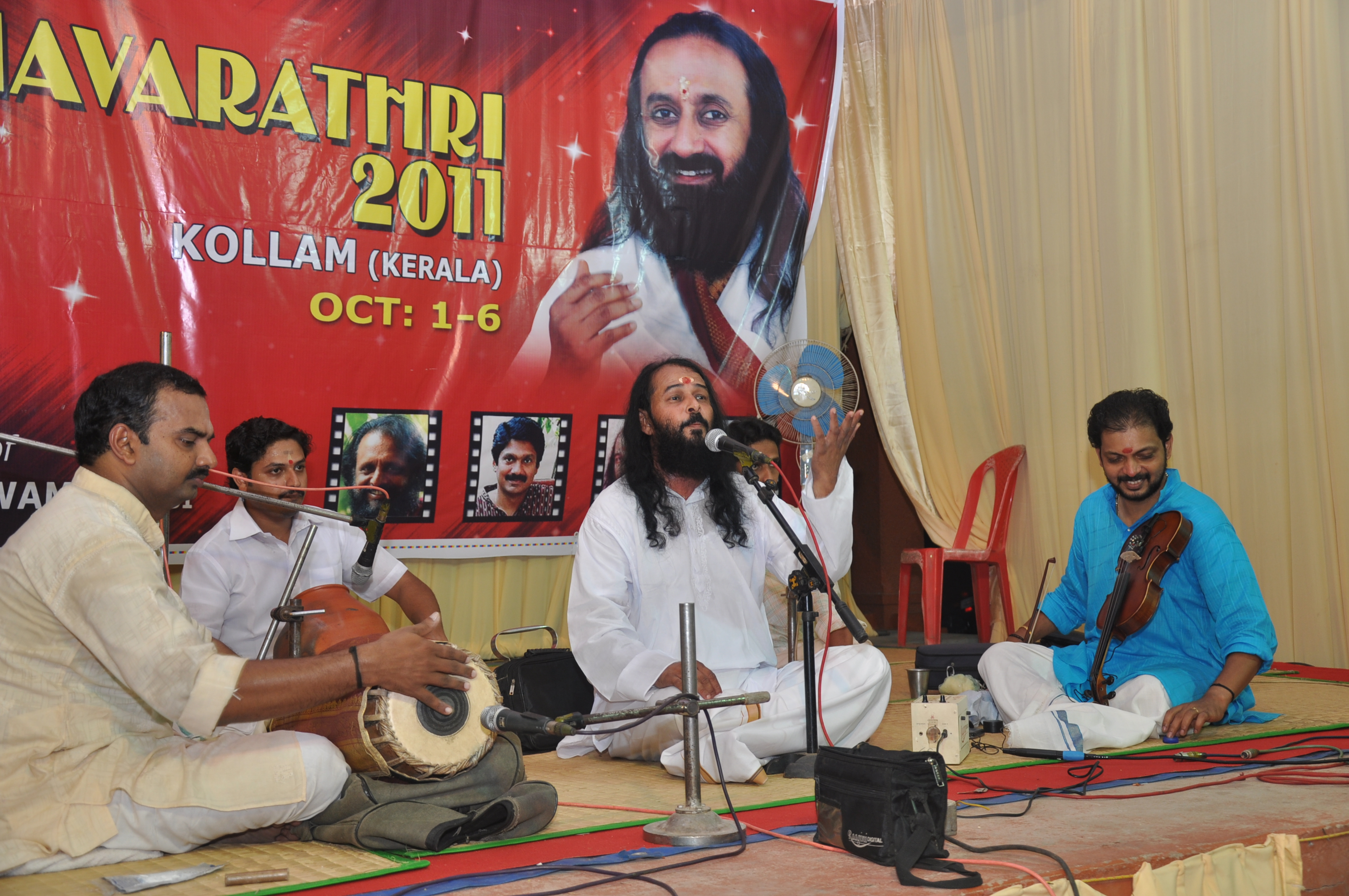 Thrikodithanam sachidanandan ,singer,during a concert in Kollam